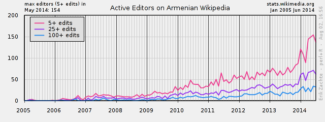 Armenian Wikipedia's active editors' count development up to June 2014.